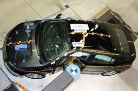 Chevrolet Volt NCAP pole test, post test. NHTSA Report DOT HS 811 573, Figure 2.02